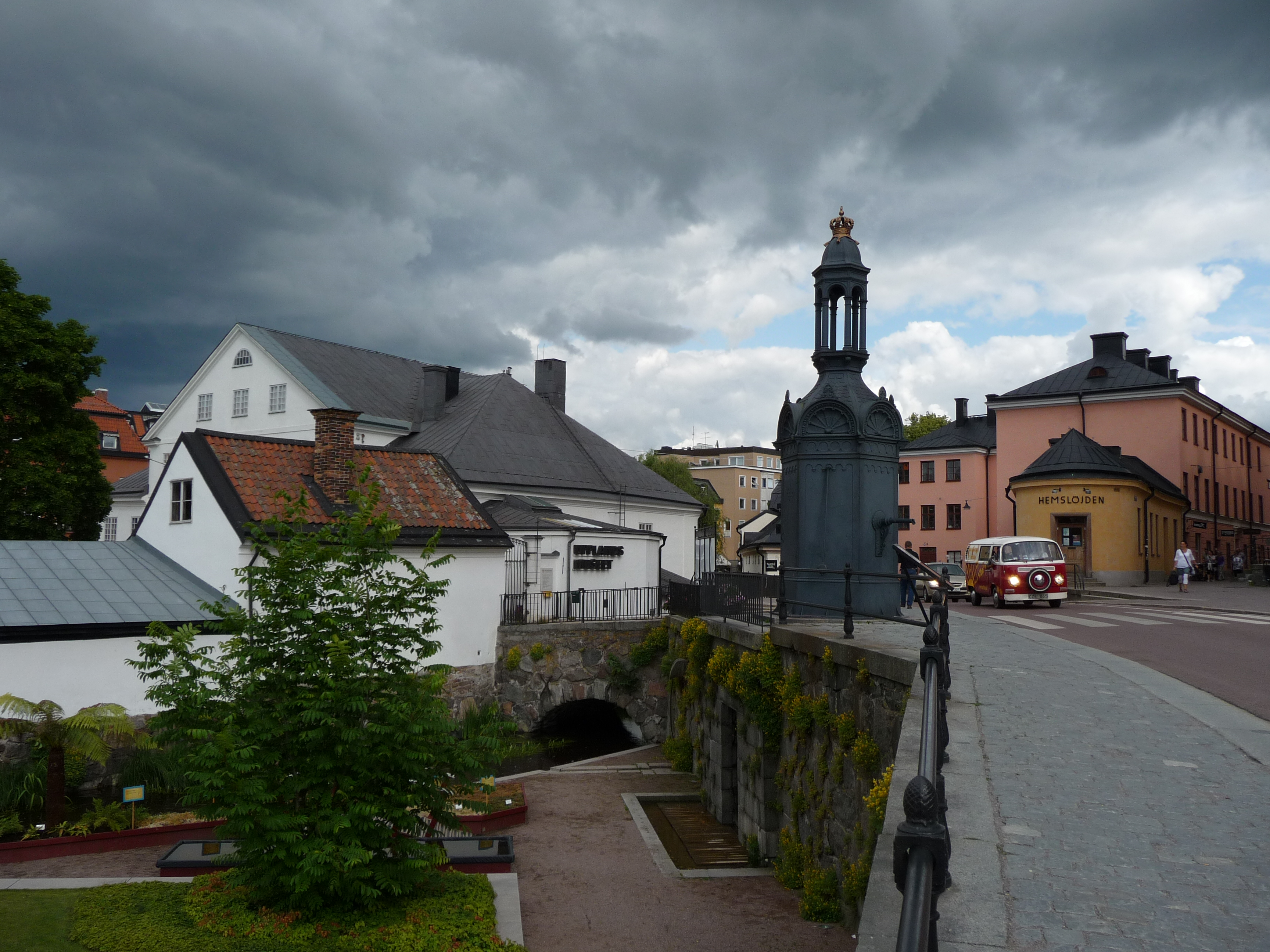 The Uppland Museum